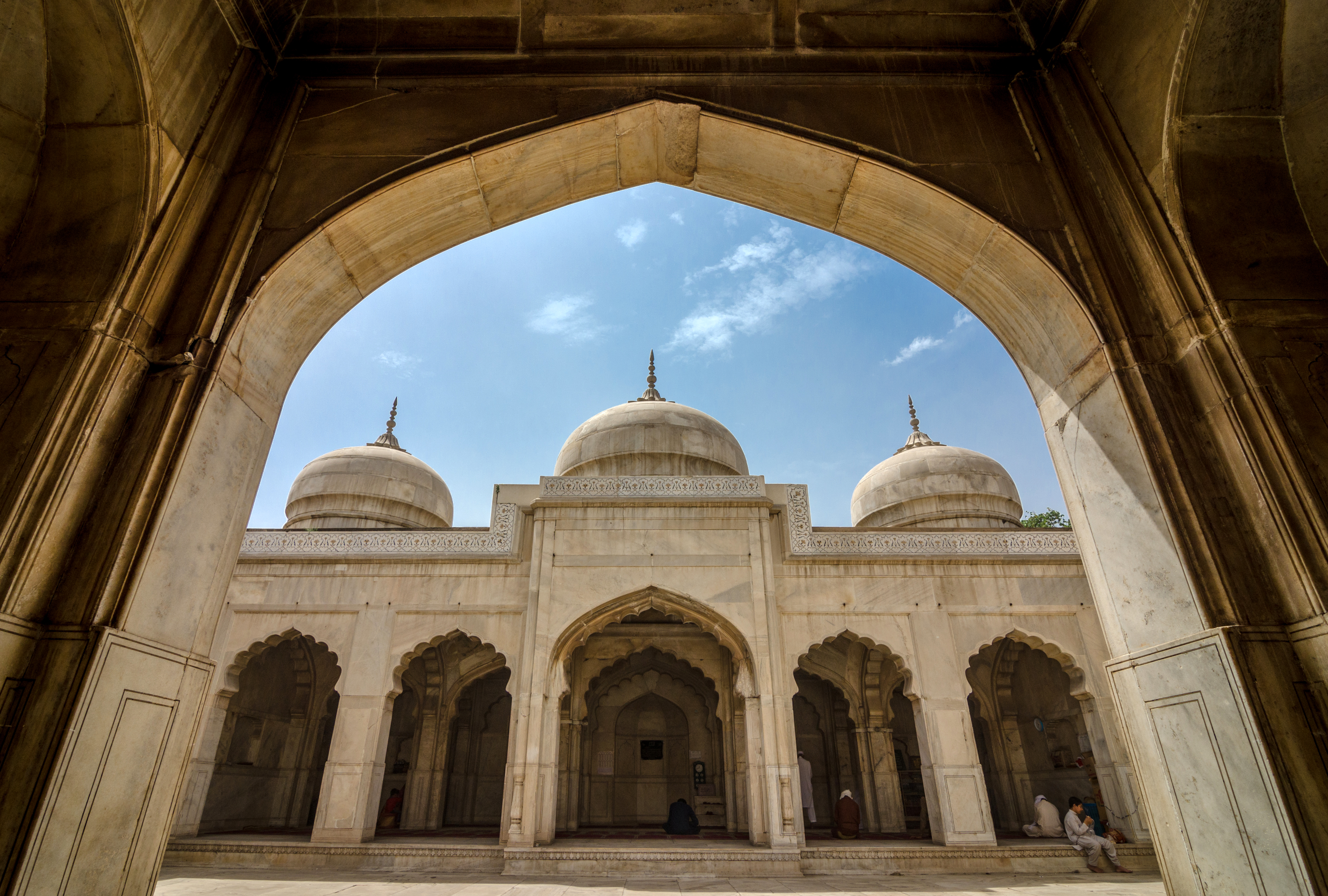 Lahore Fort complex (including Moti Masjid, Naulakha Pavilion, Sheesh Mahal and others) This is a photo of a monument in Pakistan identified as the PB-67